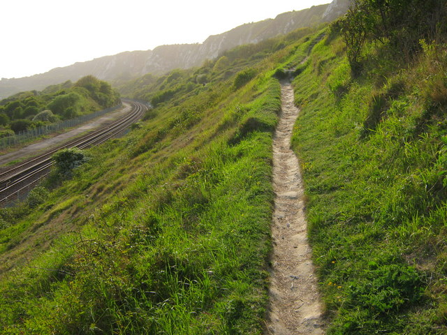 East Cliffside Path This path is part of the Warren Country Park trail. It leads back to a carpark on Wear Bay Road. It follows the railway line back to Folkestone.